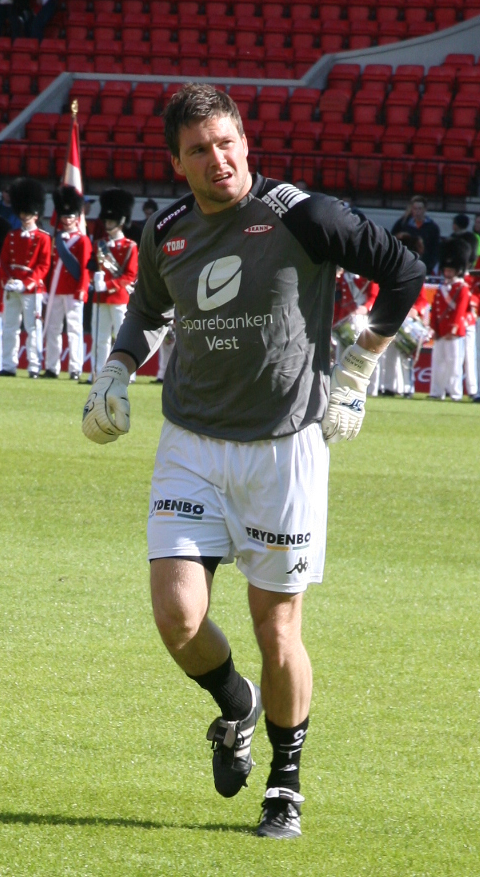 Håkon Opdal, Norwegian soccer goalkeeper